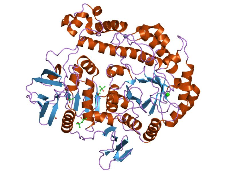 Cartoon representation of the molecular structure of protein registered with 1kwg code.